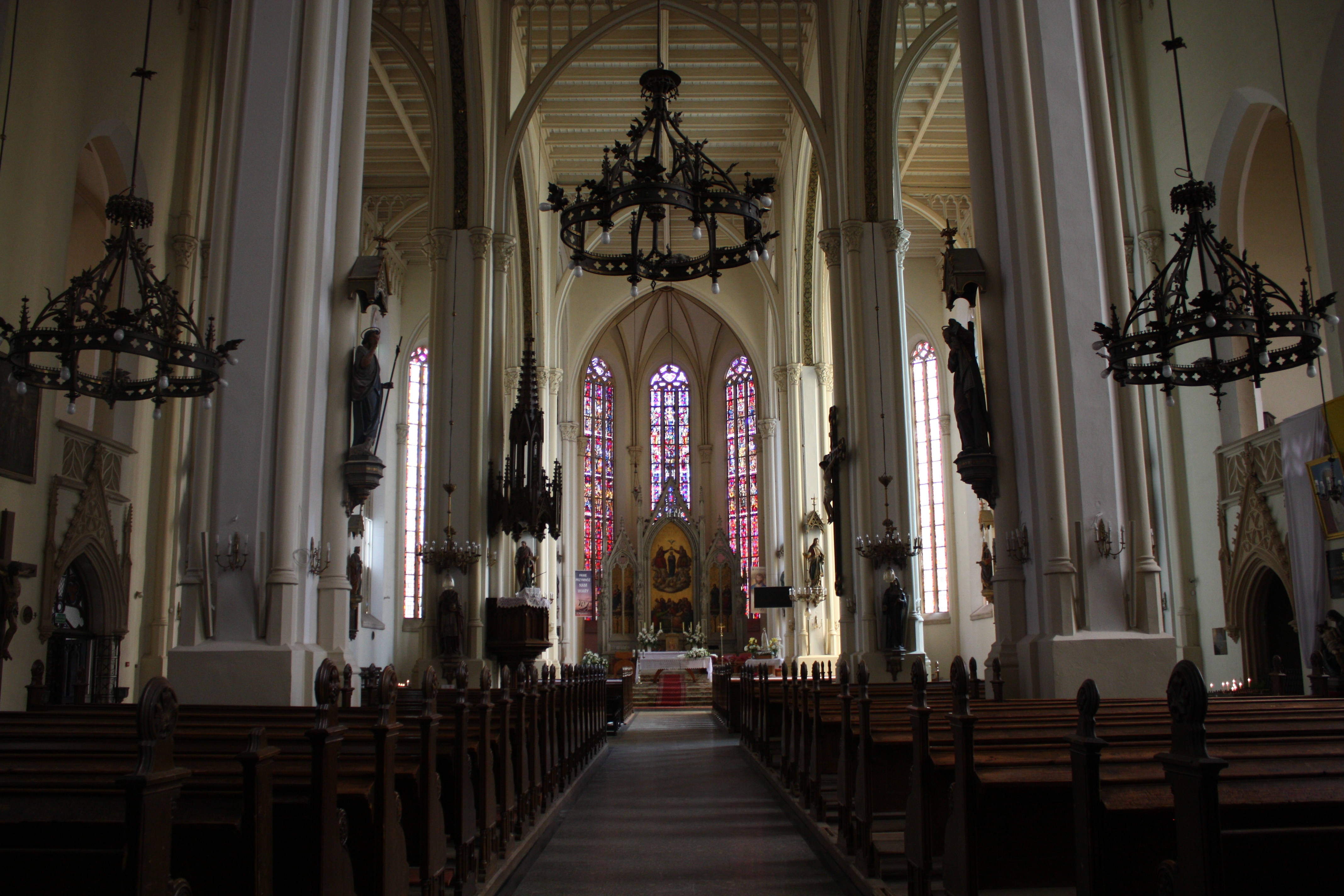 This photo of Lower Silesian Voivodeship was taken during Wikiexpedition 2013 set up by Wikimedia Polska Association. You can see all photographs in category Wikiekspedycja 2013. English | Polski | +/−